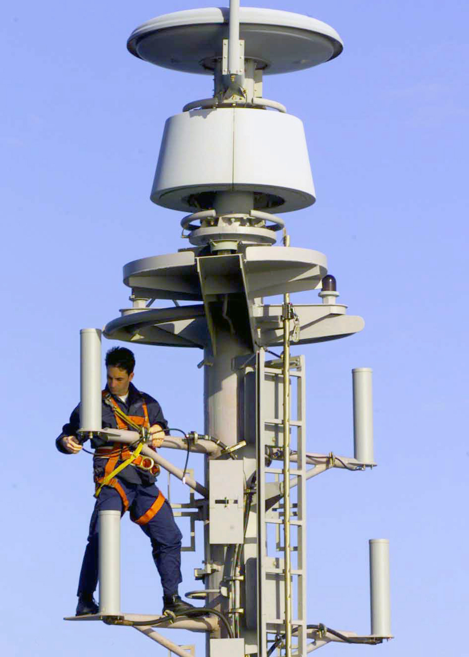 Some antennas aboard the USS Kearsarge (LHD-3)